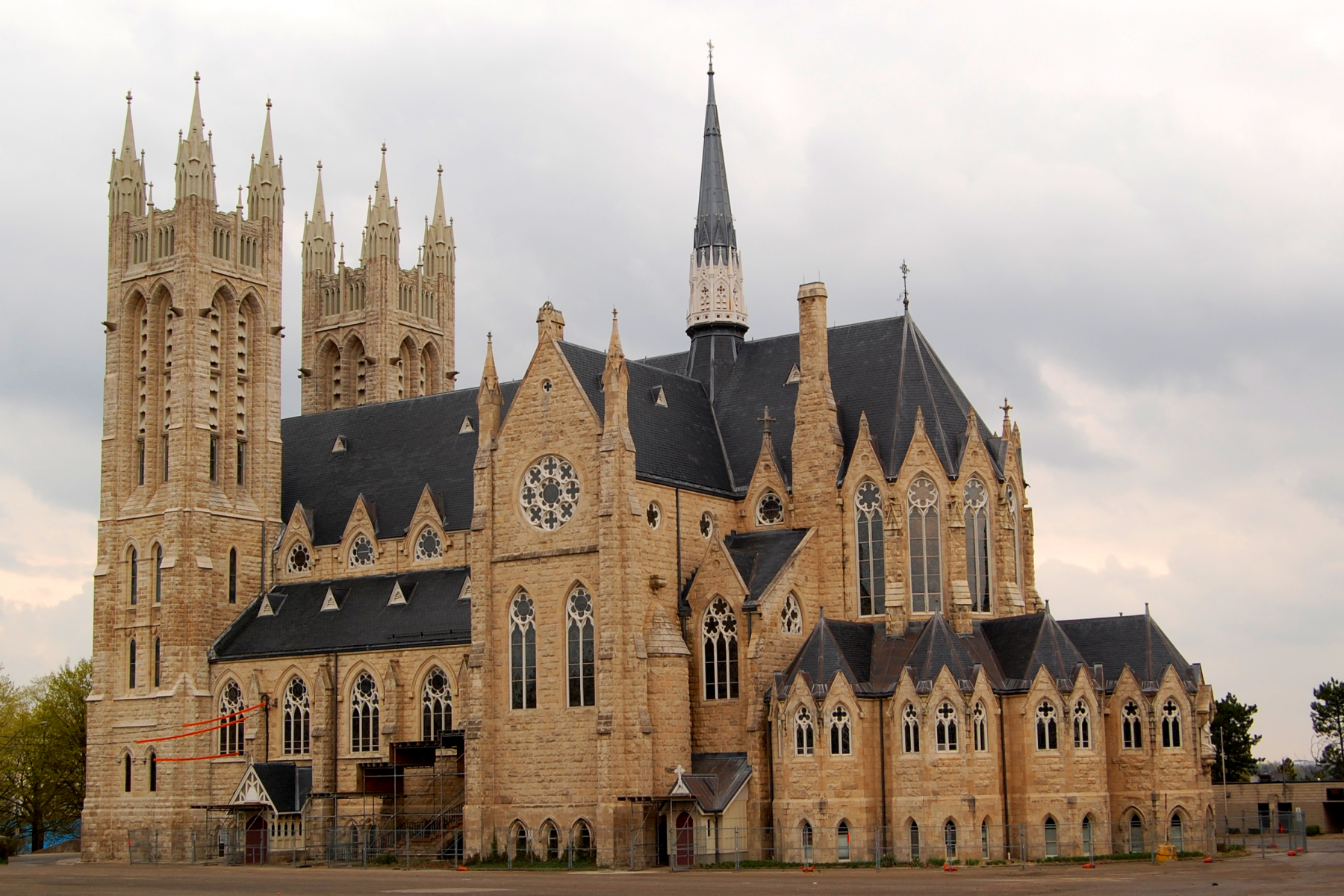 Shot during the TPMG outing to Doors Open in Guelph (but this location was not part of Doors Open).